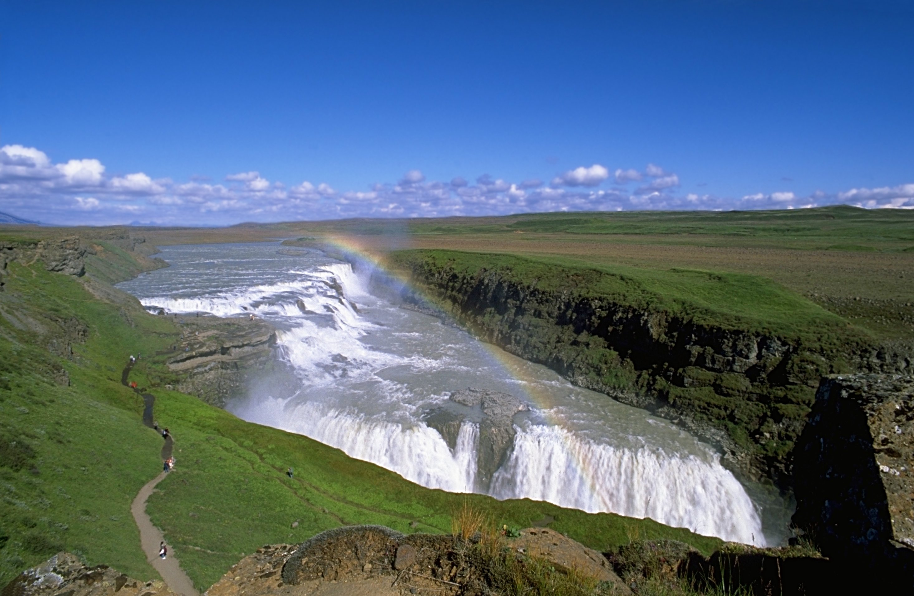 Gullfoss (overview), Iceland Photo was taken using the following technique: Film: Fuji Velvia Lens: 2.0/20 Filter: Body: Minolta 600si Support: Gitzo Monotrek Image with Information in English Bild mit Informationen auf Deutsch